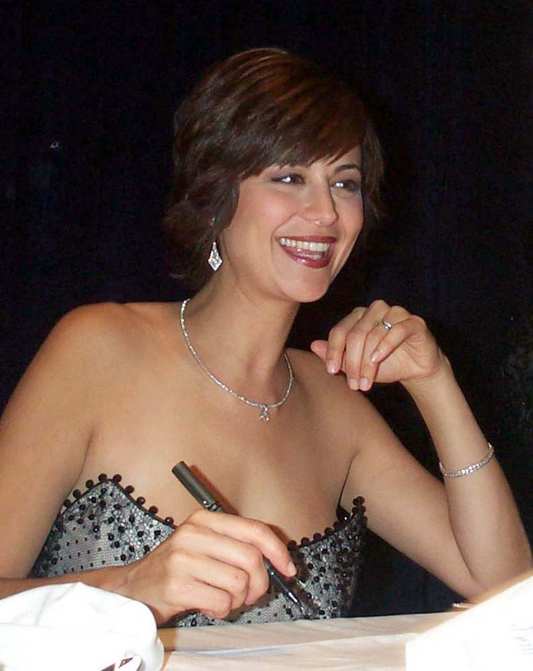 Catherine Bell, star of television's JAG, signs autographs at a Salute to Veterans. Bell spoke at the banquet and ball hosted by the American Legion in Washington.